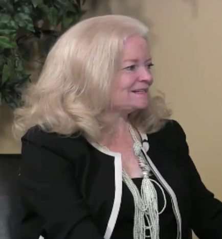 Sharon L. Lechter (born January 12, 1954) is a writer and businesswoman from an interview